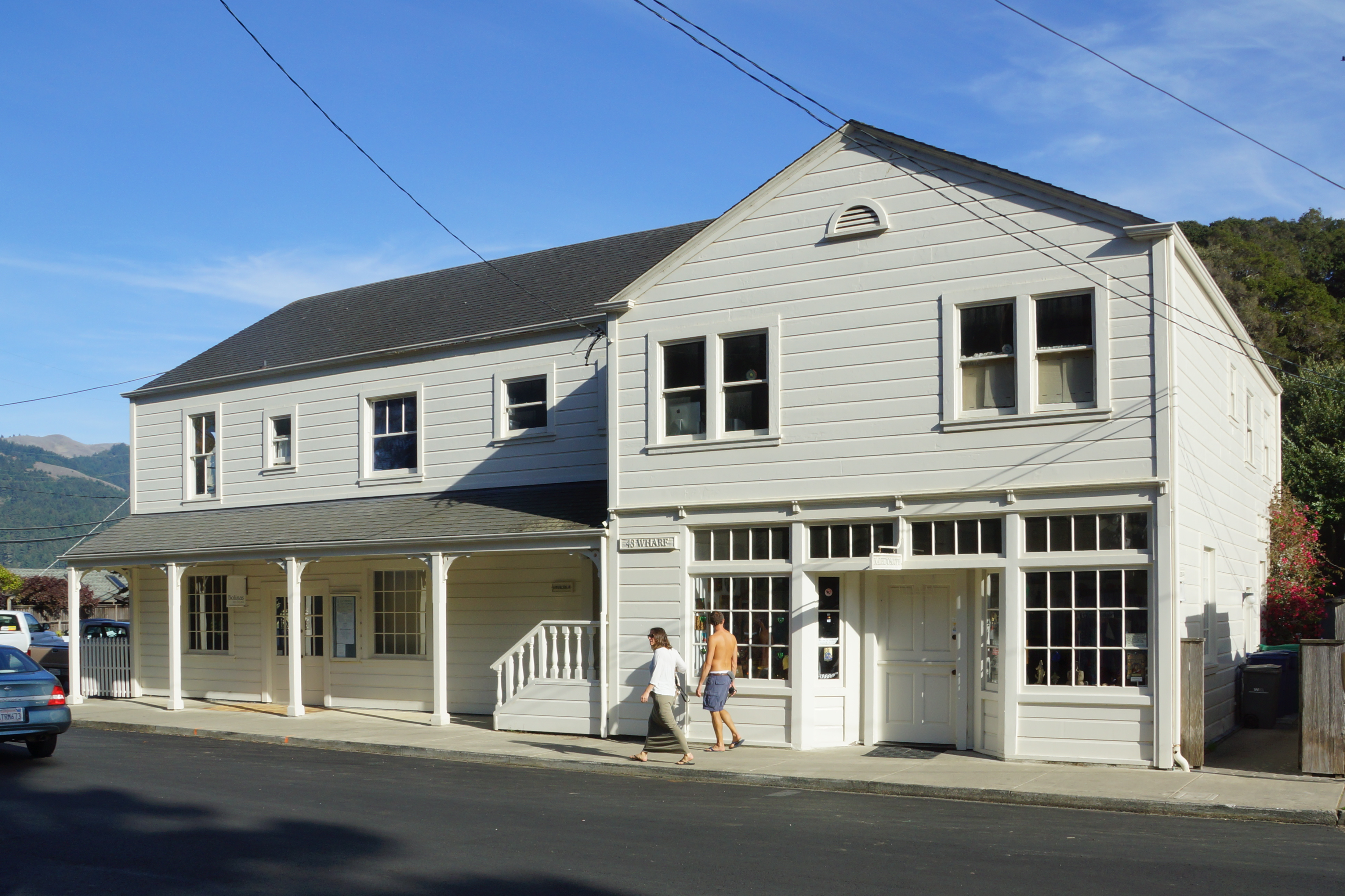 California (Bolinas), United States: Museum of Fine Arts